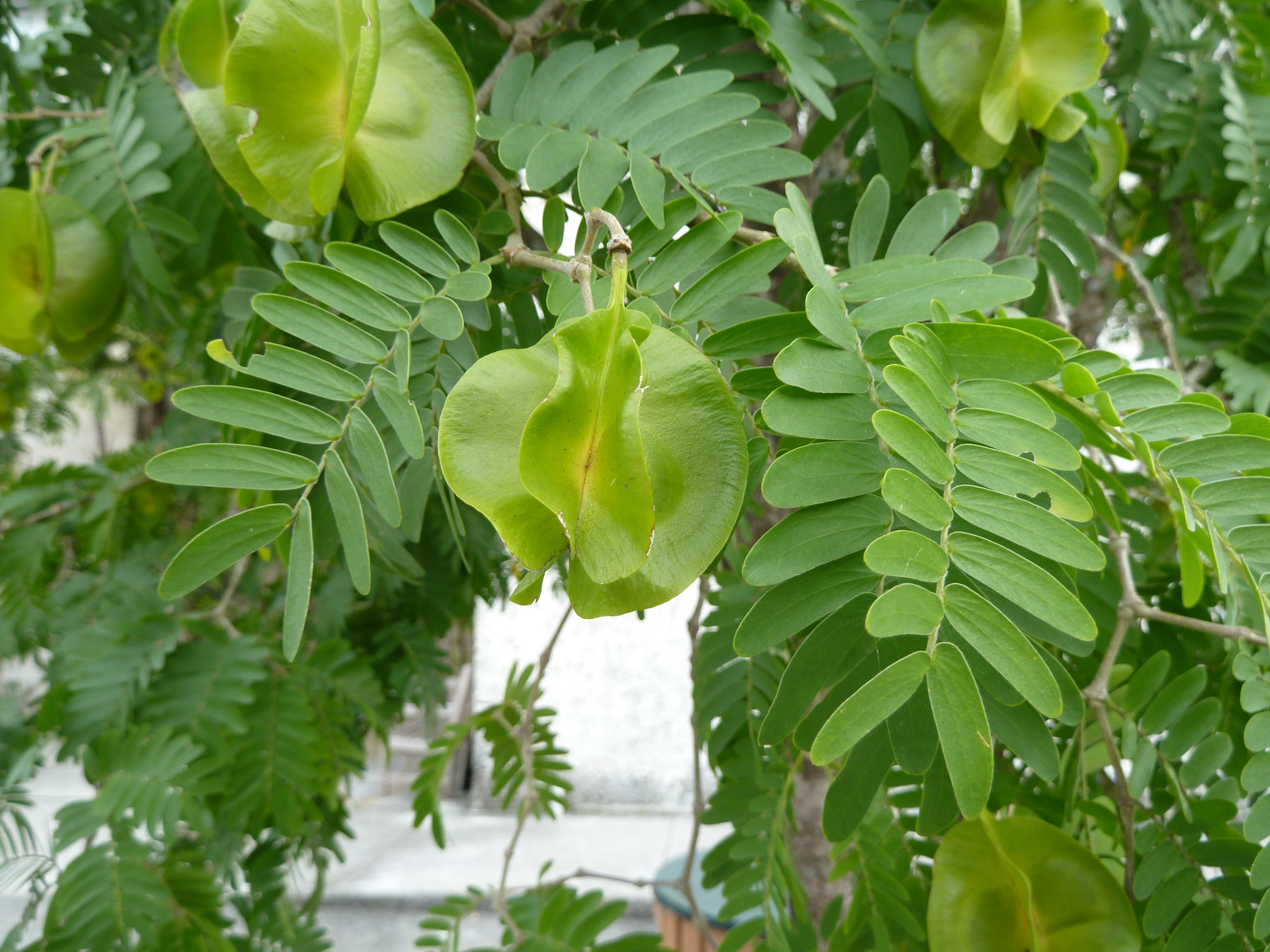 Bulnesia Arborea at Fairchild Tropical Botanic Garden in south Miami, FL